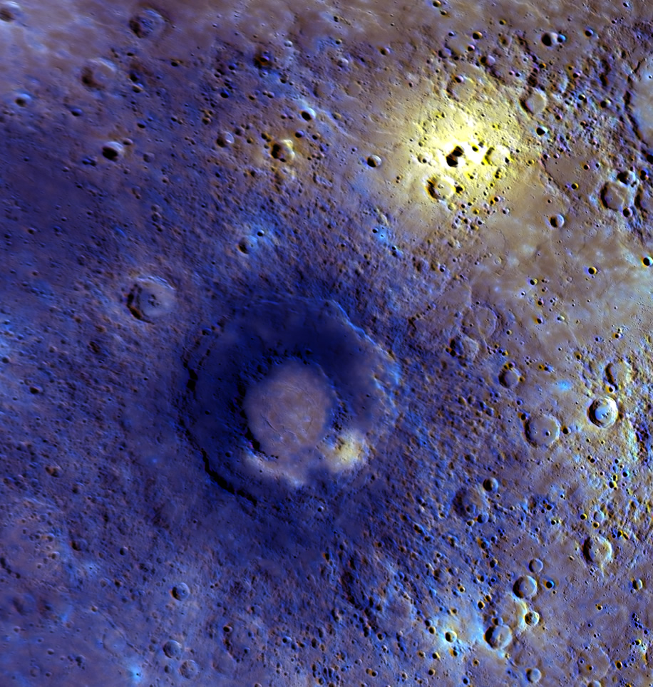 This enhanced-color view was created with a statistical technique that highlights subtle color variations seen in the 11 WAC filters. These variations are often related to composition. Merged with images from the higher-resolution NAC, the two sets of observations tell the story of the geology of the area and the compositional differences of the features observed. This region, viewed in detail for the first time during the third flyby, appears to have experienced a high level of volcanic activity. The bright yellow area near the top right is centered on a rimless depression that is a candidate site for an explosive volcanic vent. The double-ring basin in the center of the image has a smooth interior that may be the result of effusive volcanism. Smooth plains, thought to be a result of earlier episodes of volcanic activity, cover much of the surrounding area. nstrument: Wide Angle Camera (WAC) and Narrow Angle Camera (NAC) of the Mercury Dual Imaging System (MDIS) Resolution: 1.0 kilometers/pixel (0.6 miles/pixel) Scale: The double-ring basin in the middle of the image is 290 kilometers (180 miles) in diameter